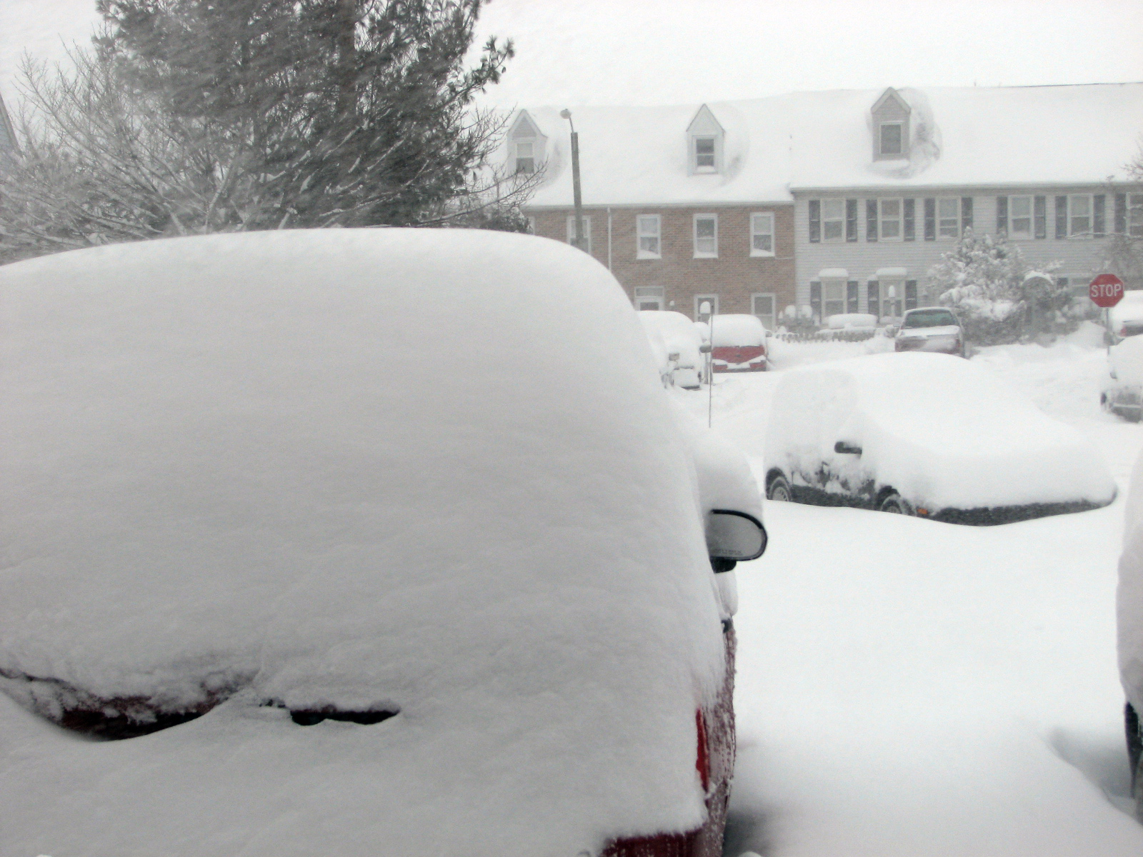 During the North American blizzard of 2010, several feet of snow were dumped in the American Northeast. At the time of this photo (8:30 AM EST on February 6, 2010), 16 inches of snow had fallen in Ephrata, Pennsylvania with no signs of stopping or slowing.